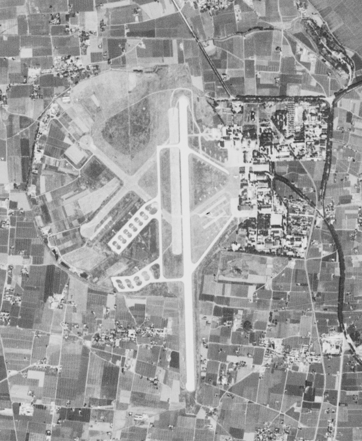 Beijing Xijiao Airport. Spatial tentatively corrected. 中文（中国大陆）: 西郊机场。空间上尝试性矫正过。